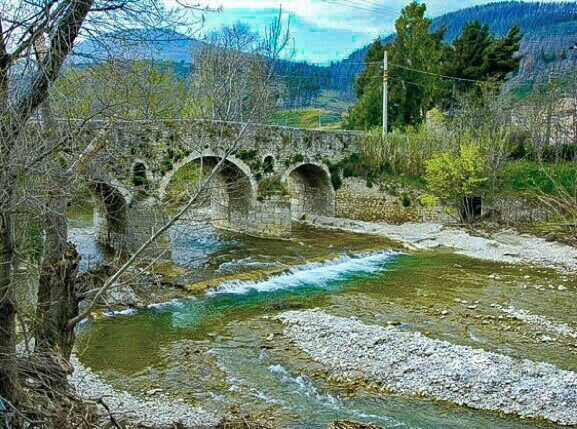 Cervaro river at Bovino bridge, Apulia (Italy)